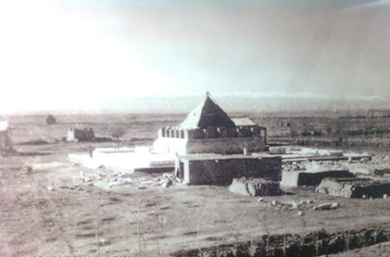 Tomb of Ferdowski